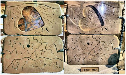 Peralta Stones front view with and without the heart inserted.